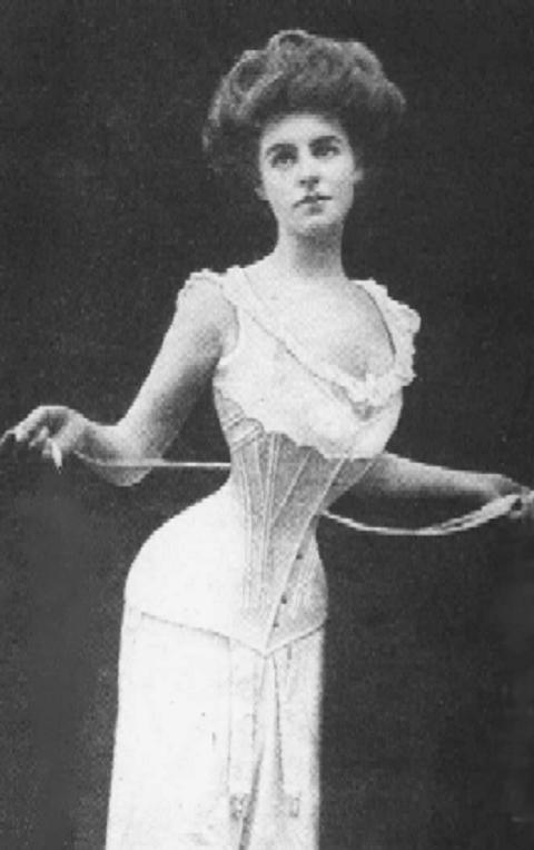 Edwardian Corset